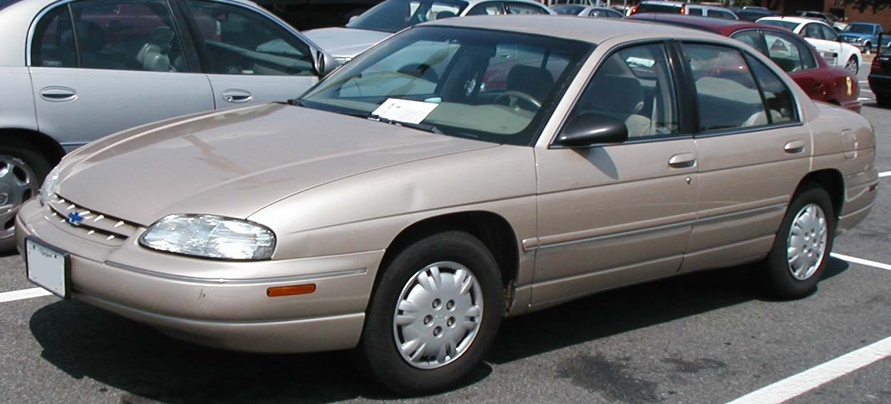 1995-2001 Chevrolet Lumina photographed in USA.